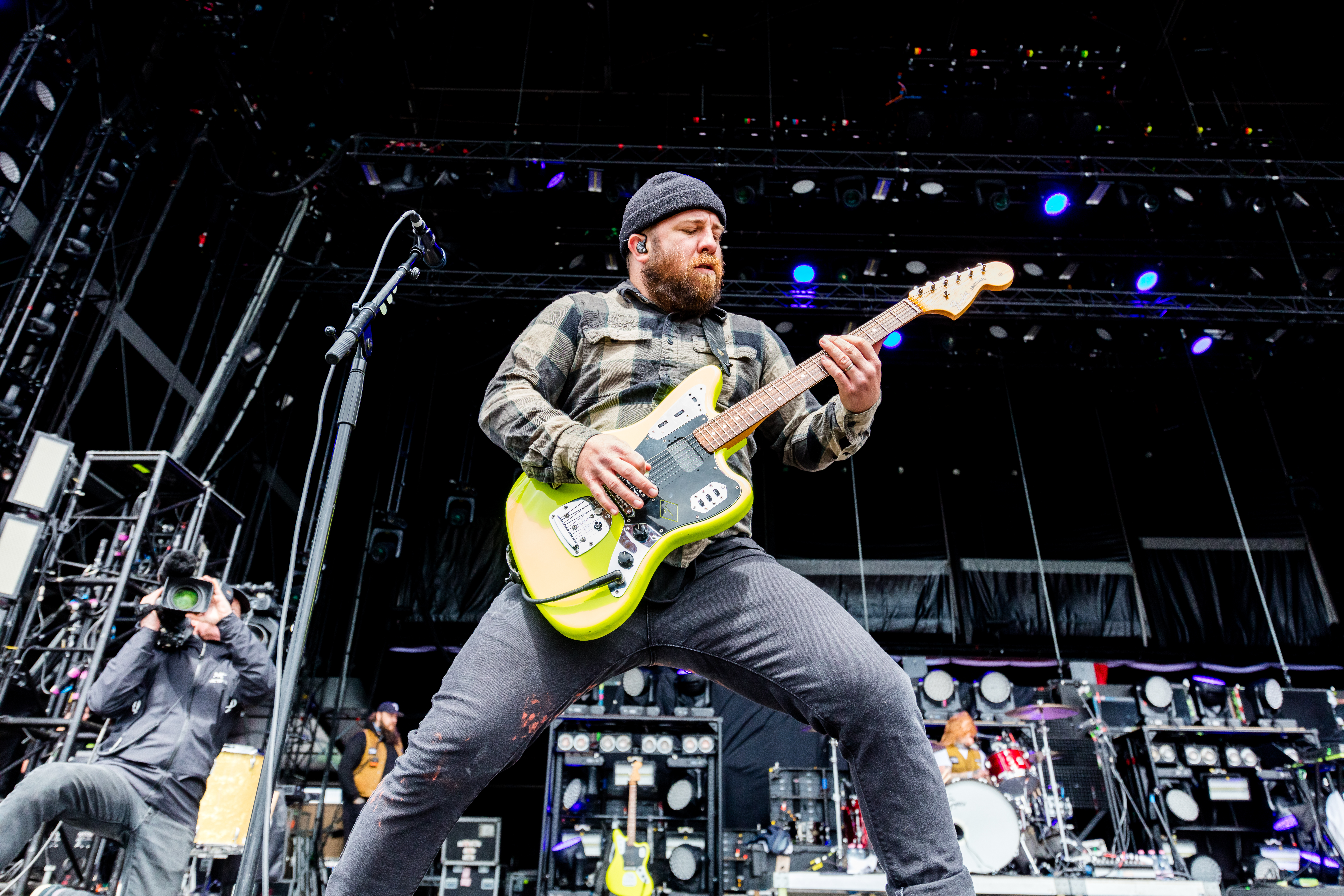 Underoath during Rock am Ring ( at Nürburgring, Rheinland-Pfalz, Germany on 2019-06-08, Photo: Sven Mandel Promotion by Live Nation (